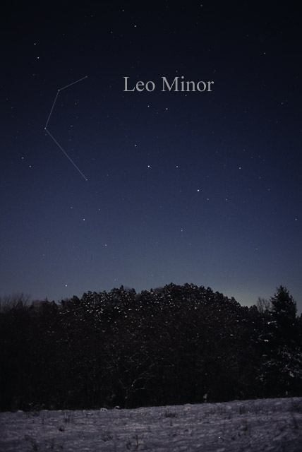 Photography of the constellation Leo Minor, the lesser lion